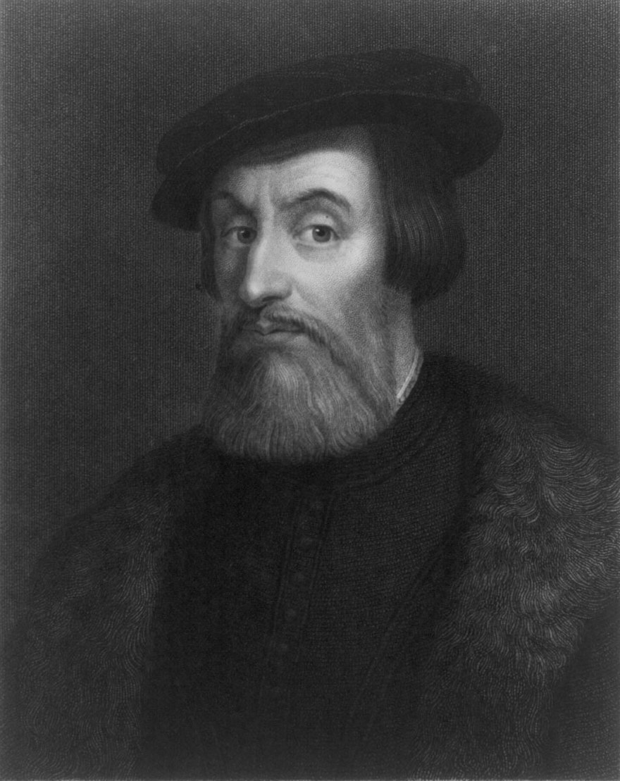 Summary: Portrait, bust, facing left, maturity.